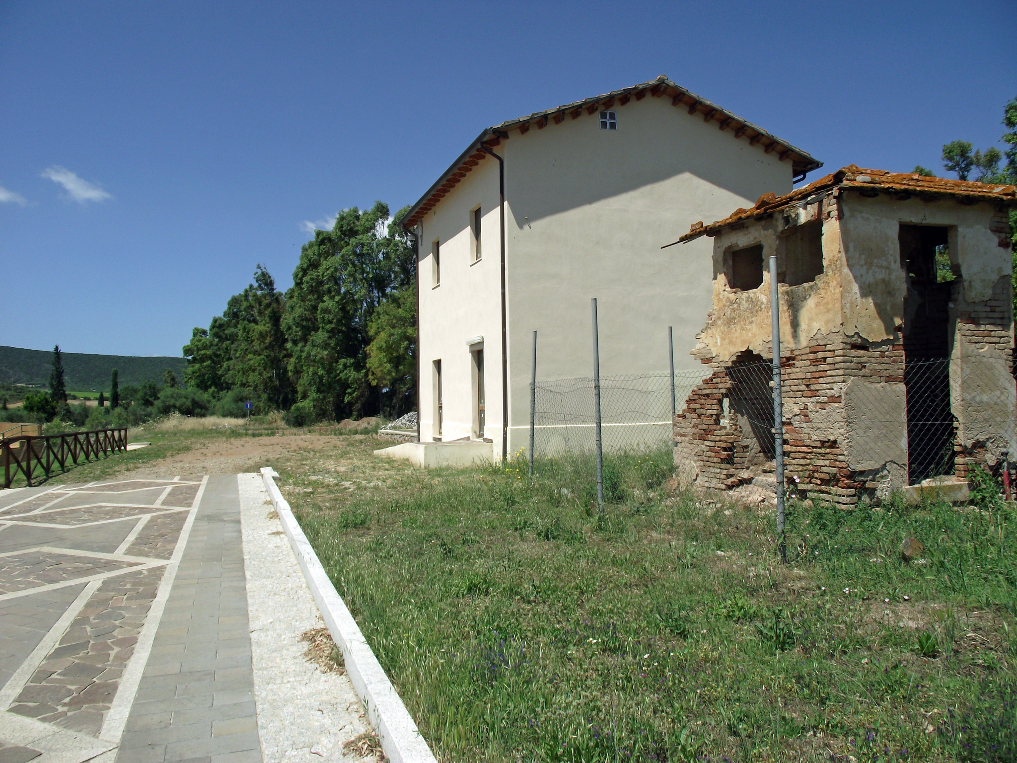 The former train halt of Piscinas in Sardinia, Italy, along the dismantled railway Siliqua-San Giovanni Suergiu-Calasetta